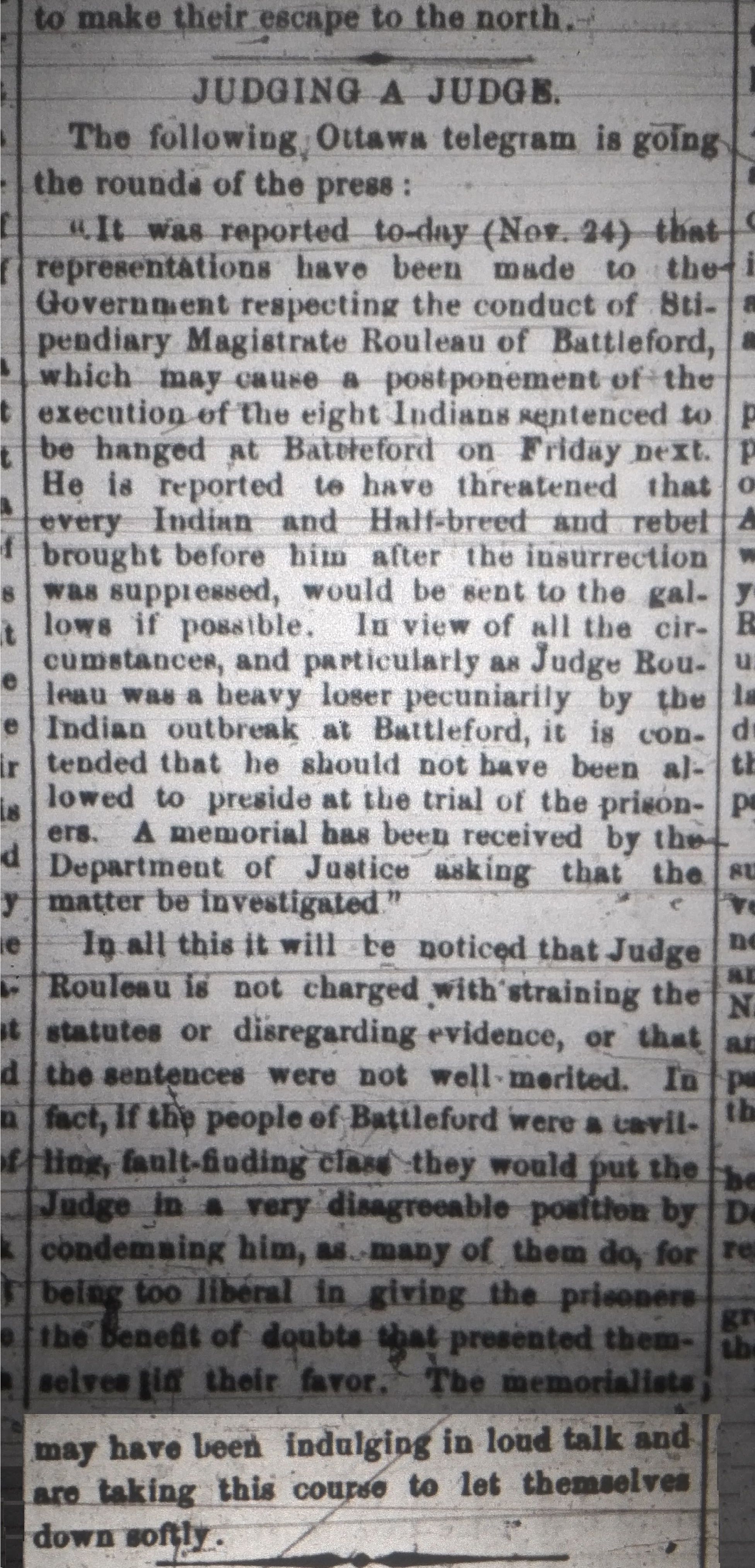 An excerpt from the Saskatchewan Herald from December 14th, 1885. In addition to the bias which was allegedly held by Judge Rouleau, the Battleford Eight were sentenced to hang without the benefit of translators at their hasty trials. The Battleford Eight were hanged on November 27th, 1885. The text of the telegraph notes that as late as November 24th, 1885 there were significant concerns with bias held by Judge Rouleau in his passing sentence on the men that was raised with the Federal Department of Justice. The text of the article reads: "JUDGING A JUDGE The following Ottawa telegram is going the rounds of the press: "It was reported to-day (Nov. 24) that representations have been made to the Government respecting the conduct of Stipendiary Magistrate Rouleau of Battleford, which may cause a postponement of the execution of the eight Indians sentenced to be hanged at Battleford on Friday next. He is reported to have threatened that every Indian and Half-breed and rebel brought before him after the insurrection was suppressed, would be sent to the gallows if possible. In view of all the circumstances, and particularly as Judge Rouleau was a heavy loser pecuniarily by the Indian outbreak at Battleford, it is contended that he should not have been allowed to preside at the trial of the prisoners. A memorial has been received by the Department of Justice asking that the matter be investigated." In all this it will be noticed that Judge Rouleau is not charged with straining the statutes or disregarding evidence, or that the sentences were not well-merited. In fact, if the people of Battleford were a cavilling, fault-finding class they would put the Judge in a very disagreeable position by condemning him, as many of them do, for being too liberal in giving the prisoners the benefit of doubts that presented themselves in their favor. The memorialists may have been indulging in loud talk and are taking this course to let themselves down softly."